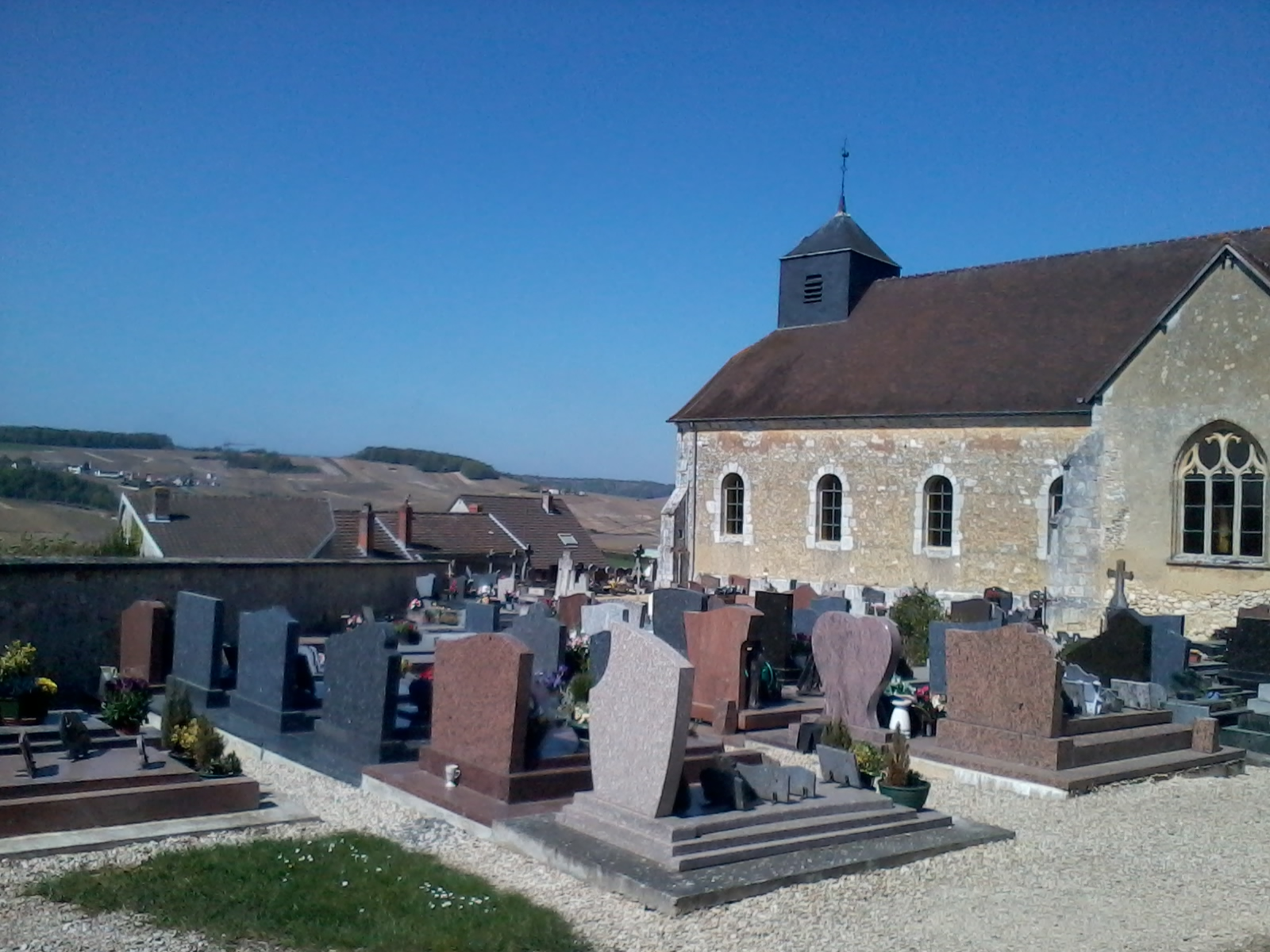 The cemetery of the commune of Grauves in Champagne-Ardenne, France.